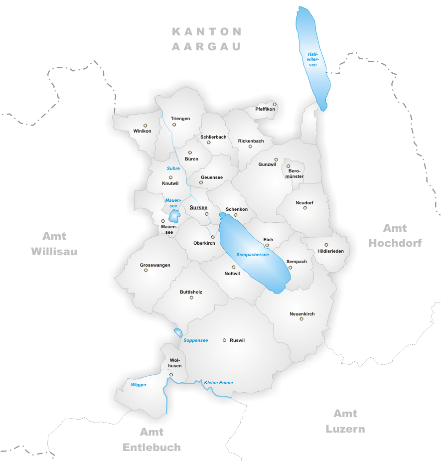 Municipalities of District Sursee